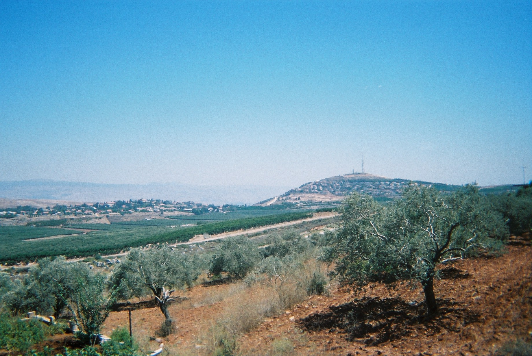 My own work, taken in August 2007. A picture from the Lebanese-side of the Israeli-Lebanon border. This photo shows in the distance an Israeli army outpost.